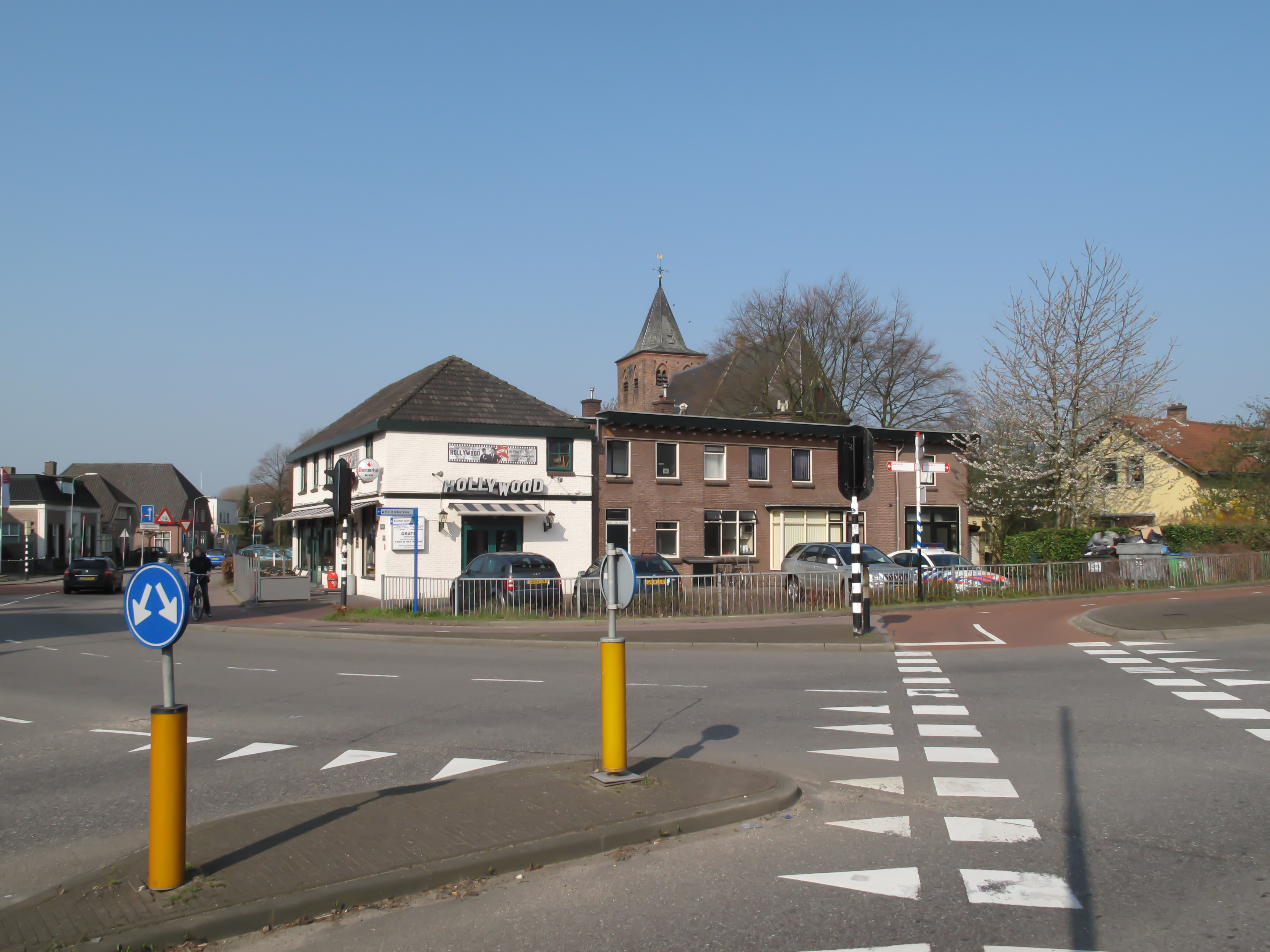 Westervoort, view to a street